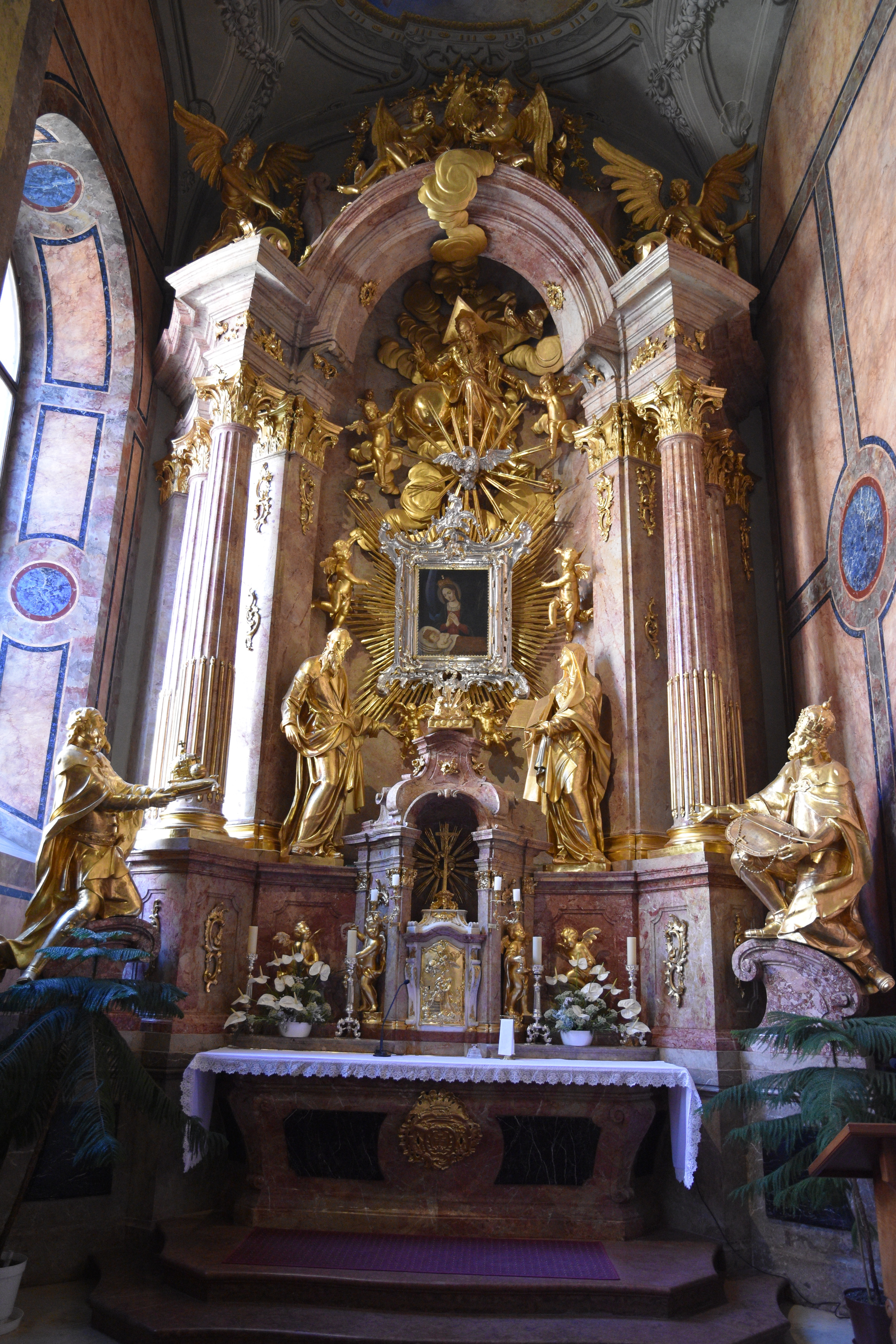 Interior of the Basilica Minor in Győr